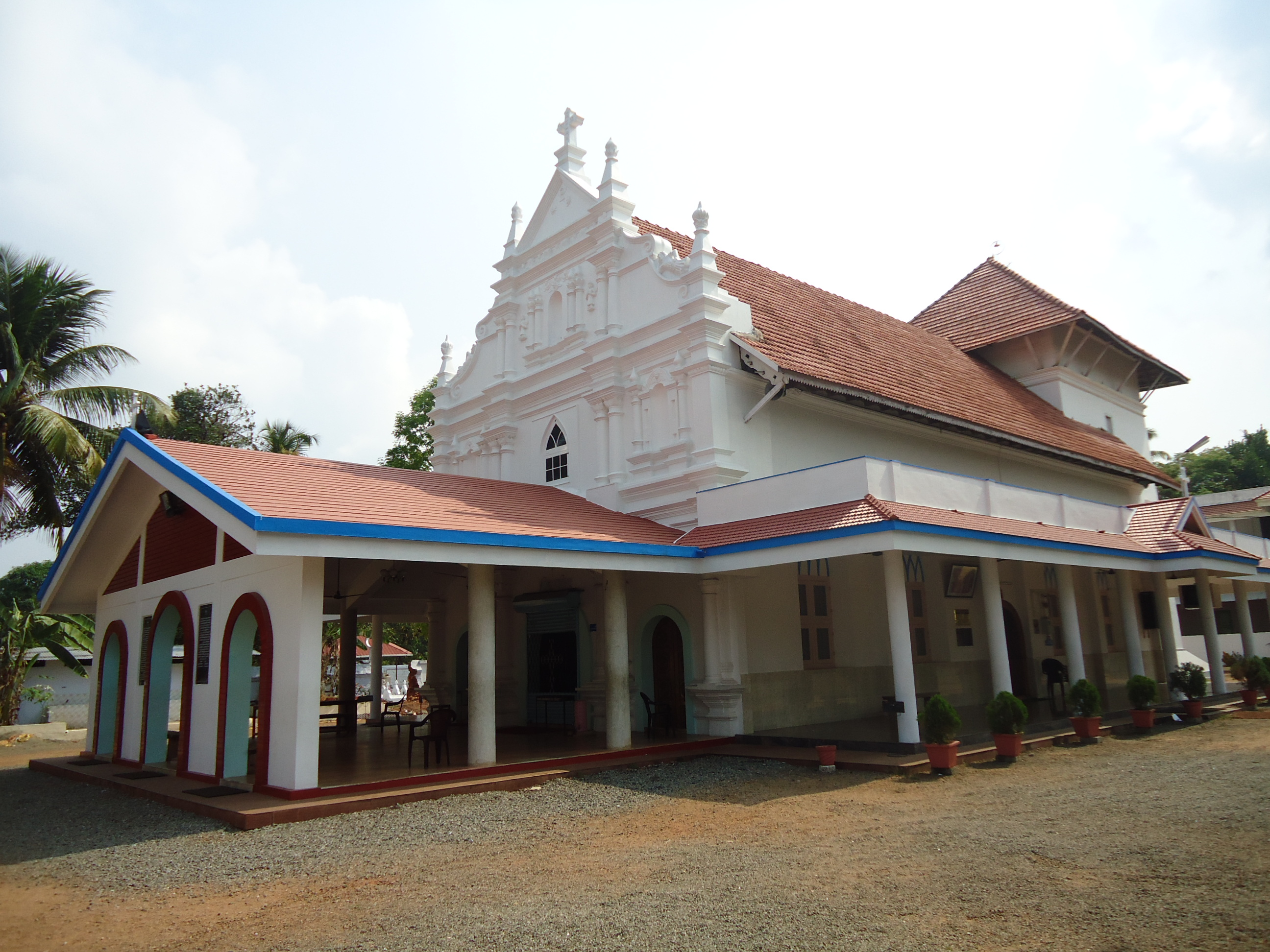 St Marys jacobite Syrian church angamaly